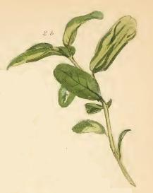 Stainton’s Natural History of the Tineina (1855–1873): Phyllonorycter junoniella mined leaf of Vaccinium vitis-idaea